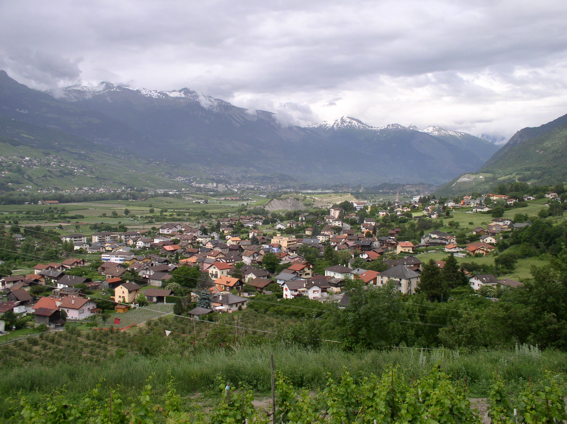 Village of Réchy, Valais, Switzerland